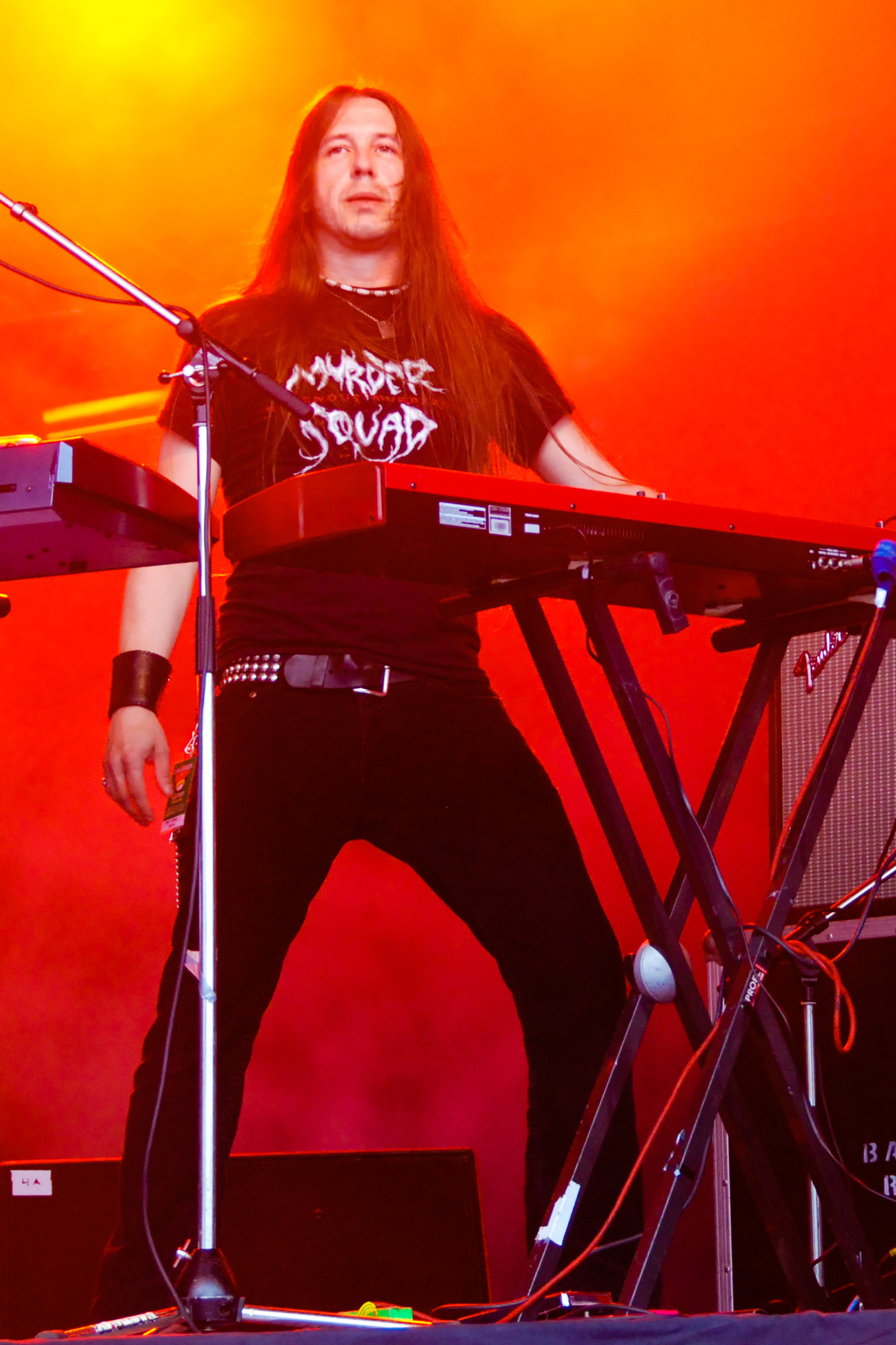 Keyboardist Per Wiberg of Opeth performing at the Ilosaarirock festival on the 15th of July 2007 in Joensuu, Finland.